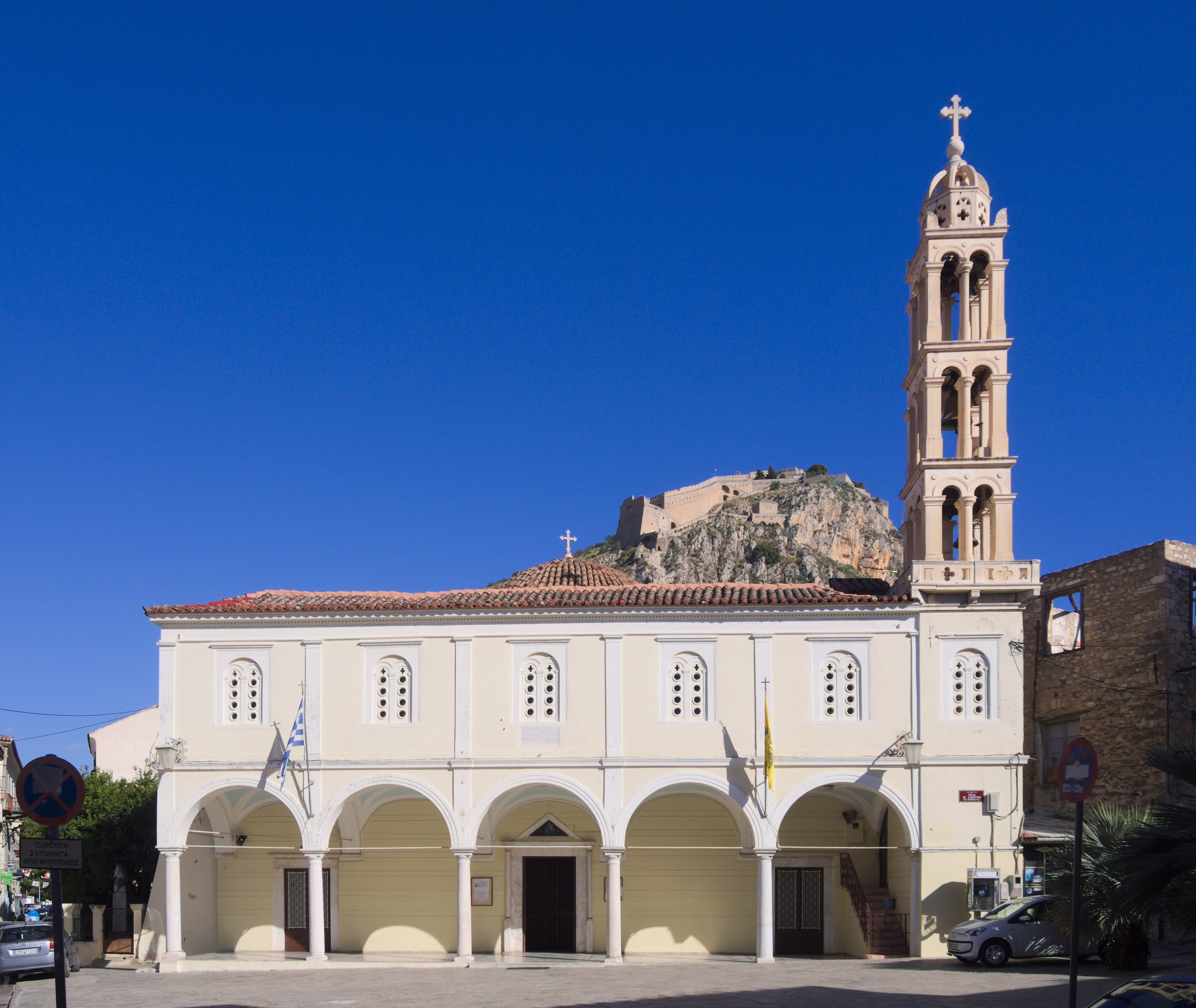 The metropolitan cathedral of Nafplion, Agios Georgios.